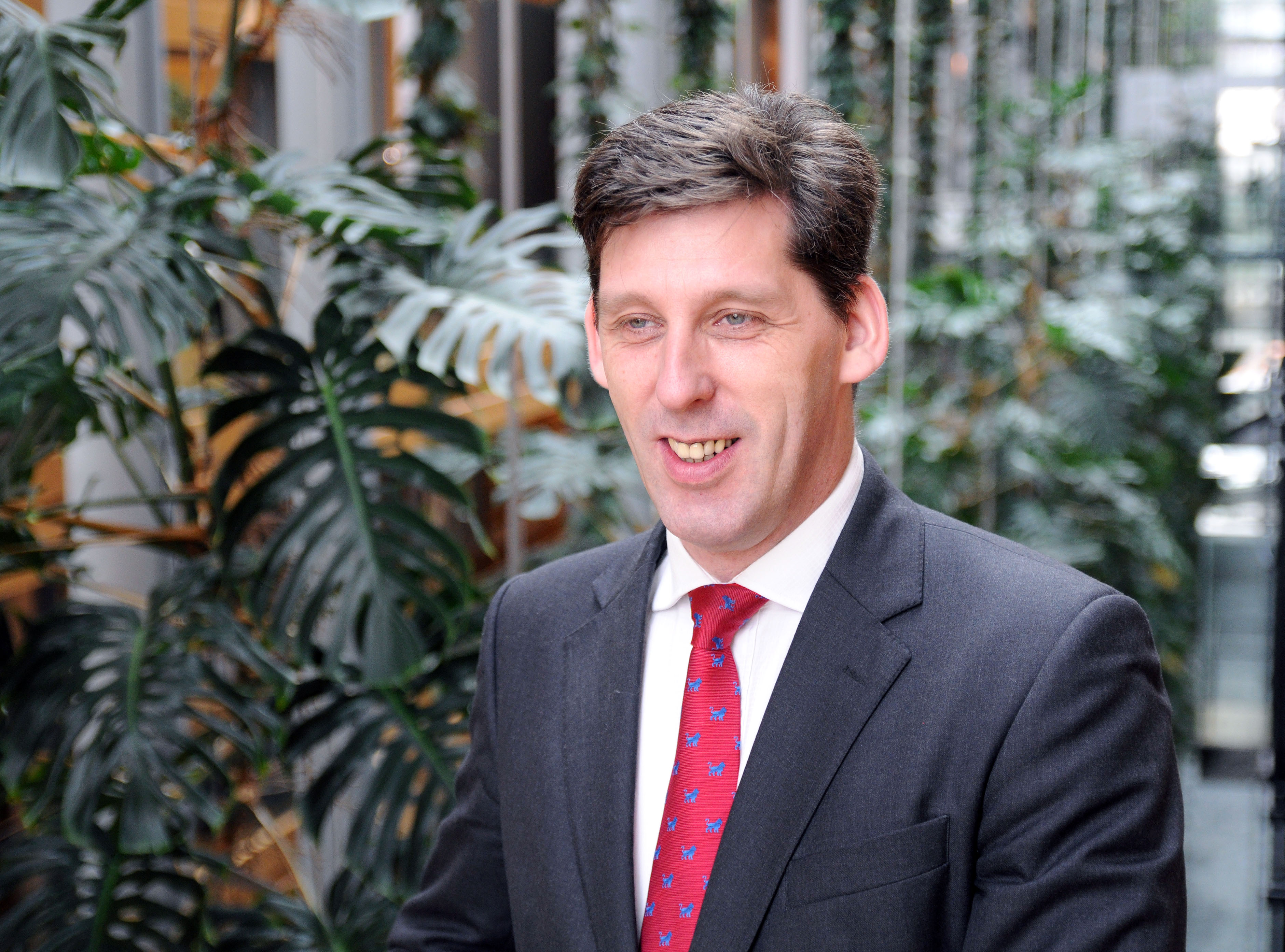 Dr. Ian Duncan MEP at the European Parliament in Strasbourg on 9th February 2015